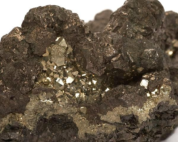 Luzonite, Pyrite Locality: Pen-Shan Ore Body, Chinkuahshih Mine, Jui-Fang Town, Taipei County, Taiwan Province, Taiwan (Locality at ) Size: 5.0 x 3.6 x 2.9 cm. Luzonite is an uncommon copper, arsenic sulfosalt. This fine, rich, 3-dimensional specimen of nearly solid, reddish-gray, metallic-lustre luzonite crystals to 5 mm is nicely accented by a scattering of pyrite crystals. Luzonite is especially desirable from this now defunct quarry in Taiwan. Very rich, highly representative material of this uncommon species from this extinct locale.